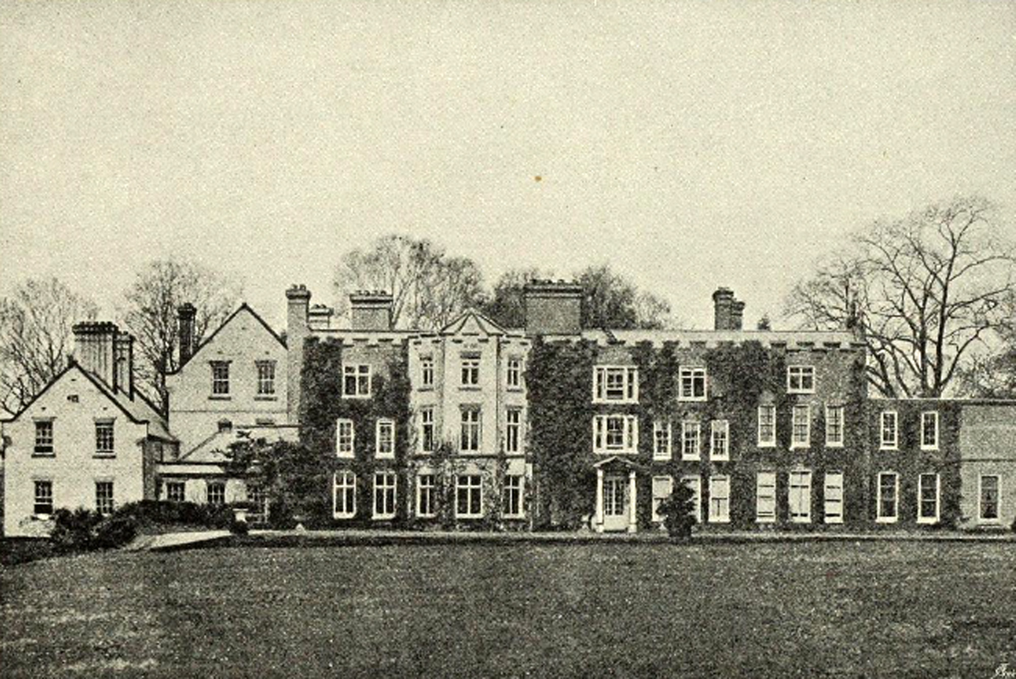 Henley Hall Ludlow, 1888